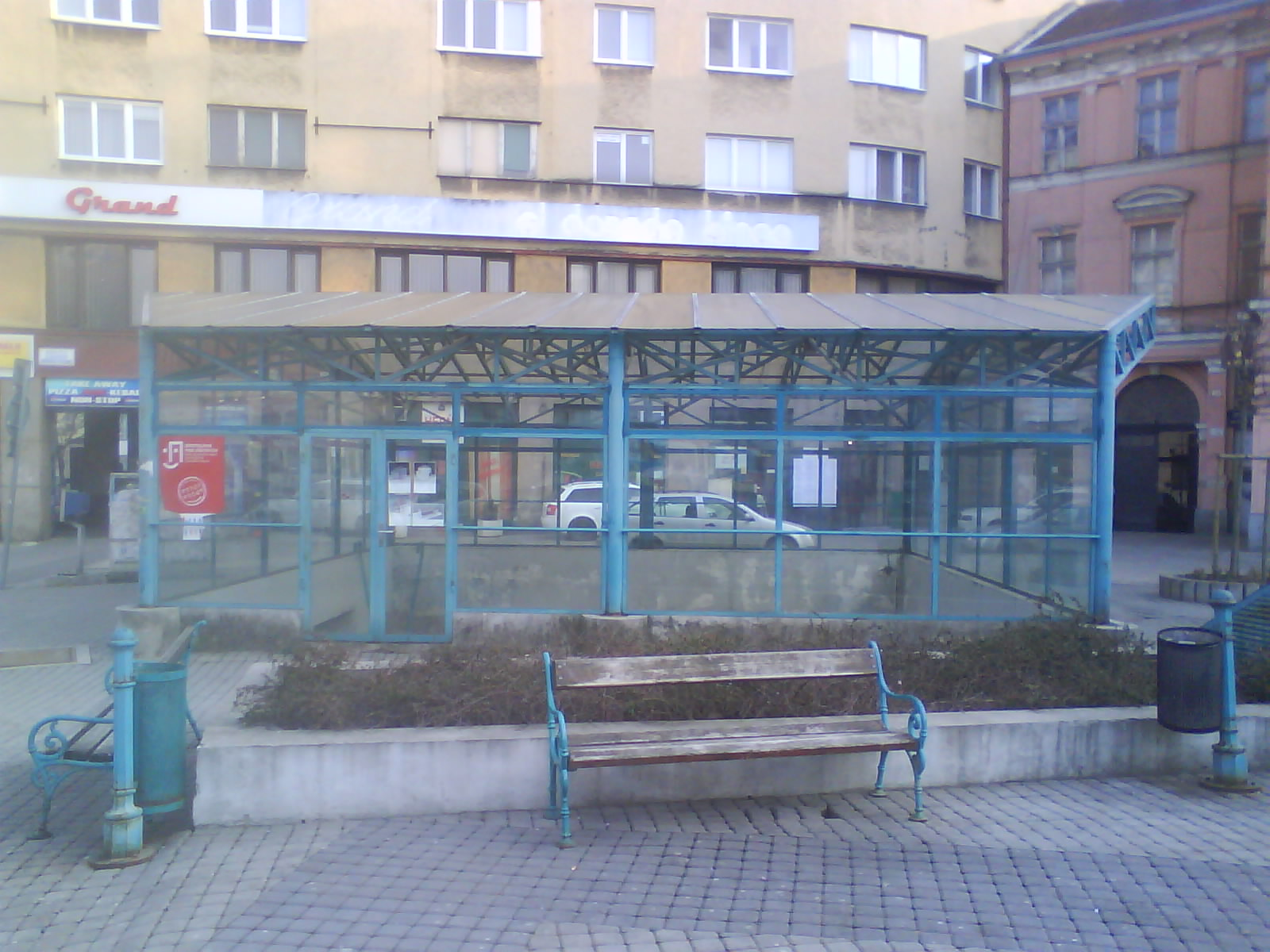 Temporary structure above Saint Jacob's Chapel, Námestie Slovenského Národneho Povstania, Bratislava, Slovakia.